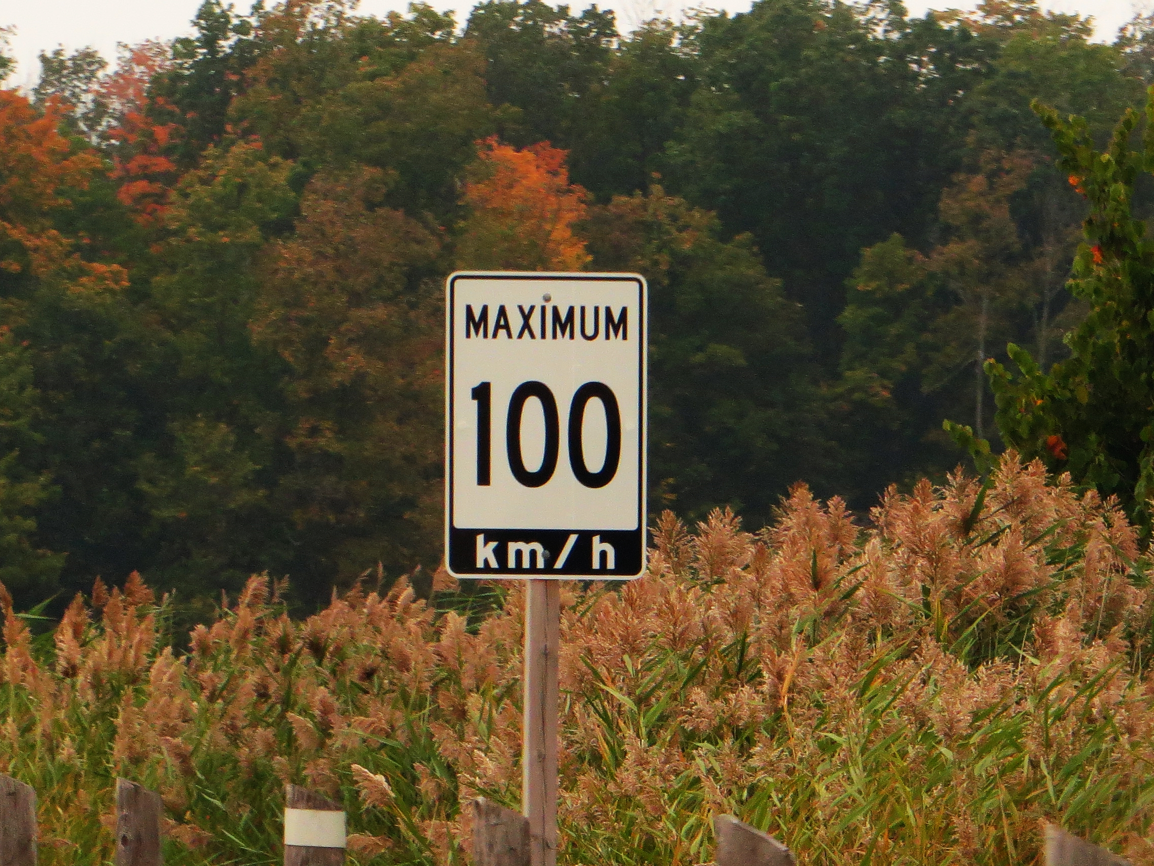 King's Highway 402, commonly referred to as Highway 402 and historically as the Blue Water Bridge Approach, is a 400-series highway in the Canadian province of Ontario that connects the Blue Water Bridge international crossing near Sarnia to Highway 401 in London. It is one of two vital trade links between Ontario and the Midwestern United States. The controlled access freeway is four-laned for nearly its entire length, except on the approach to the Blue Water Bridge, where it widens. Although Highway 402 was one of the original 400-series highways when it was designated in 1953, it was not completed until 1982, when the final link between Highway 81 and Highway 2 opened to traffic. The freeway originally did not exit the Sarnia city limits, and merged into Highway 7 near the present Highway 40 interchange. In 1972, construction began to extend Highway 402 between Sarnia and London; this work was carried out over a decade. The removal of an intersection at Front Street in Sarnia made the entire route a controlled-access highway. Motorists crossing into Michigan at the western end have direct access to Interstate 69 (I-69) and Interstate 94 (I-94) into Port Huron; motorists crossing onto the Canadian side from the east end of I-69 and I-94 have access to Toronto via Highway 401, and onwards to Montreal via A-20 in Quebec. The only town along Highway 402 between Sarnia and London is Strathroy.